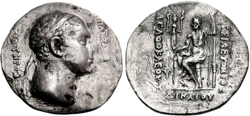 Agathokles. Circa 185-180 BC. AR Tetradrachm (14.28 g, 12h). Commemorative issue struck for Pantaleon. Diademed and draped bust of Pantaleon right Rev Zeus seated left, holding scepter and Hekate